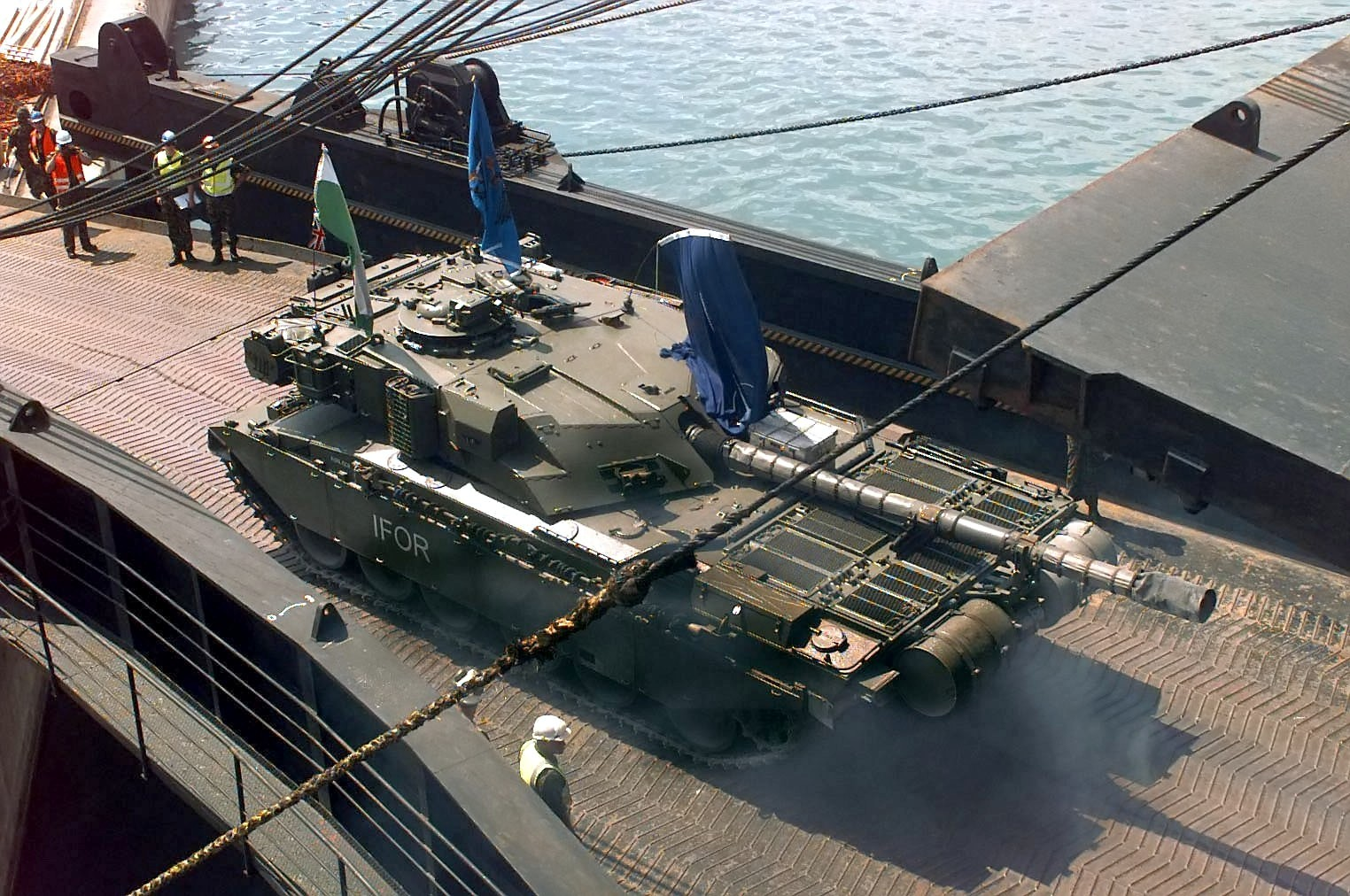 A British Army Challenger 1 Main Battle Tank (MBT), the command tank of the 1st Queen's Dragoon Guards (The Welsh Cavalry), with IFOR markings drives forward on the loading ramp of the VLADIMIR VASLYAEV, a Russian Commercial RO-RO Container (Gearless) ship, onto the dock at the harbor in Split, Croatia, during Operation Joint Endeavor. Operation Joint Endeavor is a peacekeeping effort by a multinational Implementation Force (IFOR), comprised of NATO and non-NATO military forces, deployed to Bosnia in support of the Dayton Peace Accords.